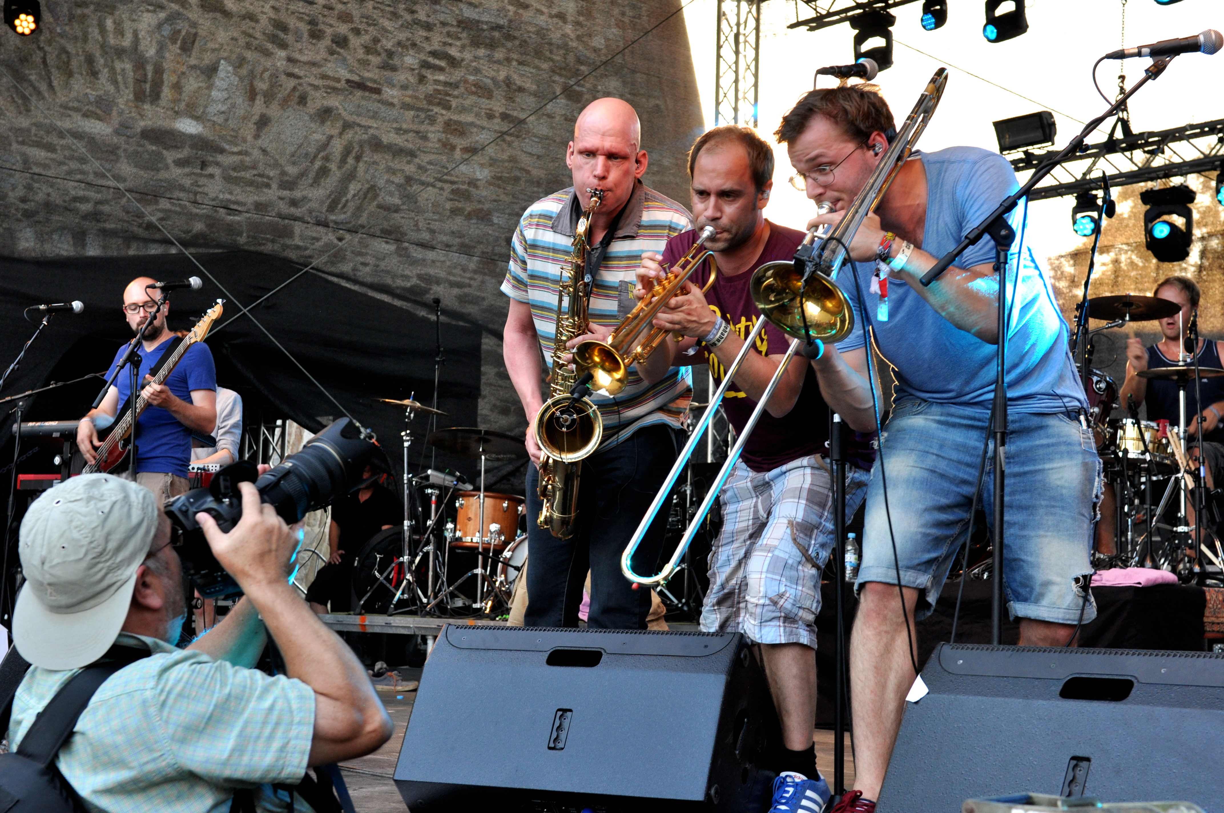 Bazzookas (NLD), World Music Festival Horizonte 2015, Fortress Ehrenbreitstein, Koblenz, Rhineland-Palatinate, Germany Festivalsommer This photo was created with the support of donations to Wikimedia Deutschland in the context of the CPB project "Festival Summer".